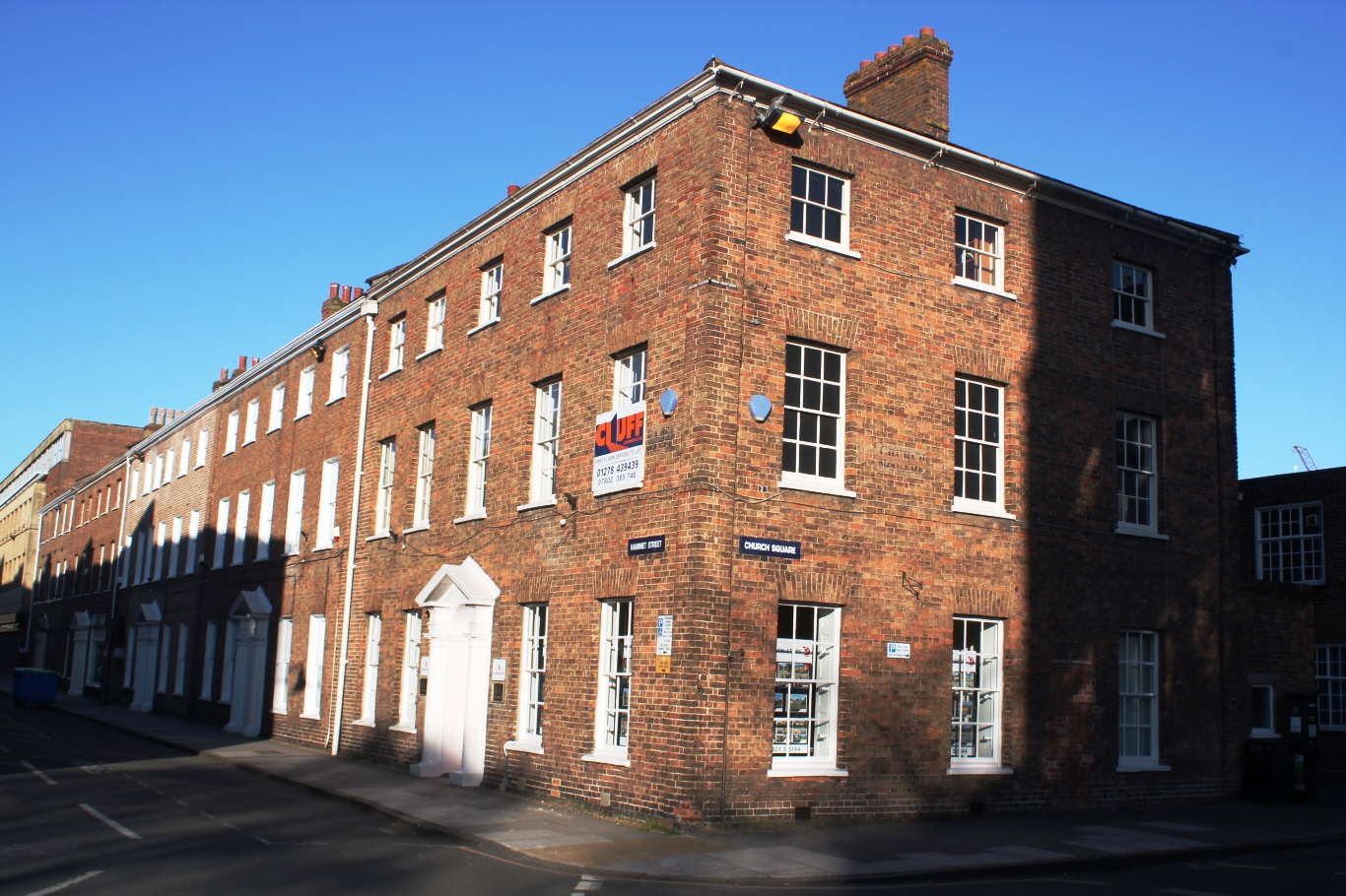 The north side of Hammet Street in Taunton. The terrace of five buildings, numbers 4 to 8 (with 8 on the corner of Church Square at this end) are listed Grade II*.